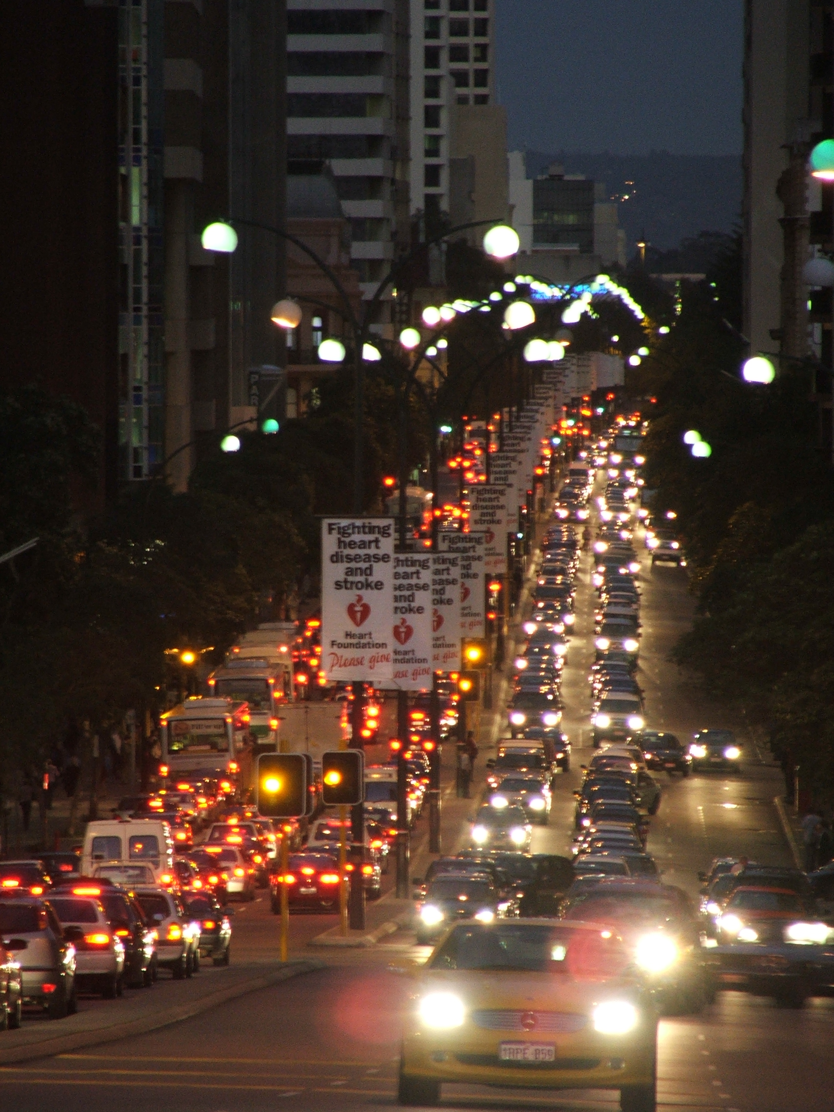 Unusual traffic snarl in Perth, caused by freeway closure.